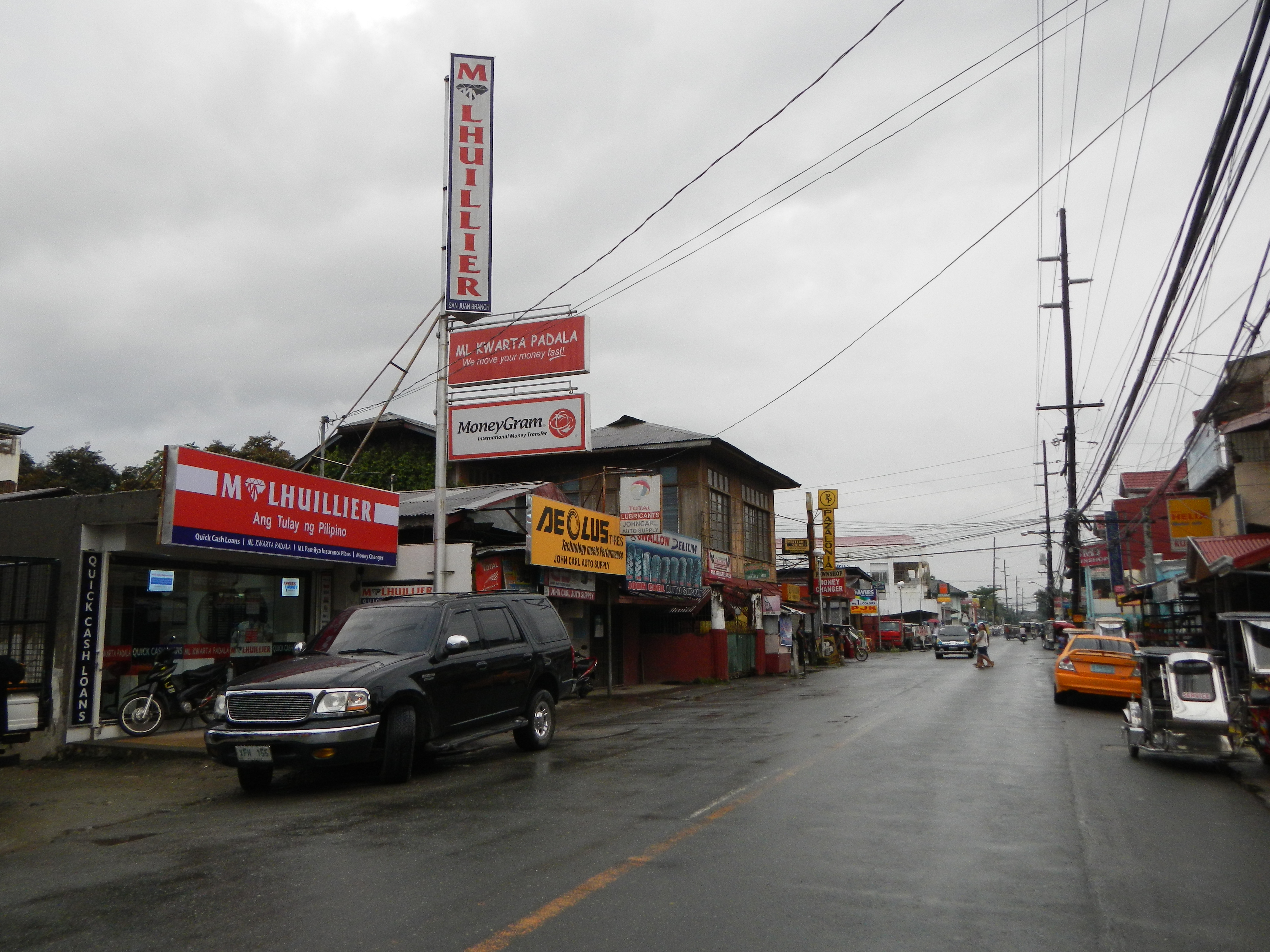 Upload Wizard photos of - Rizal st. cor. General Luna St., PureGold Supermarket and commercial establishments, Heritage, Ancestral or Old Houses of San Juan, and Hall st. cor. Gen. Luna St., Town Proper, downtown, Centro - near the May 6, 1975 marble marker and historical marker, Jose Rizal Monument and the town's Lambanog dipper statue, symbolizing its Lambanog wine industry among others in the presently being finished Covered Court, gymnasium, Plaza and Park in front of the - San Juan Municipal Hall Complex, Offices and important attractions, Poblacion San Juan [1] -Coordinates: 13°49'30"N 121°23'47"E San Juan, Batangas[2] (a first class municipality on the Philippines in the province of Batangas; the 2010 census, it has a population of 94,291 people politically subdivided into 42 barangaysWebsite attraction is Acautico Resort in Laiya [3]) - and the landmark, tourist site of - Marian Orchard of Balete at Barangay Malabanan, Balete, Batangas [4].